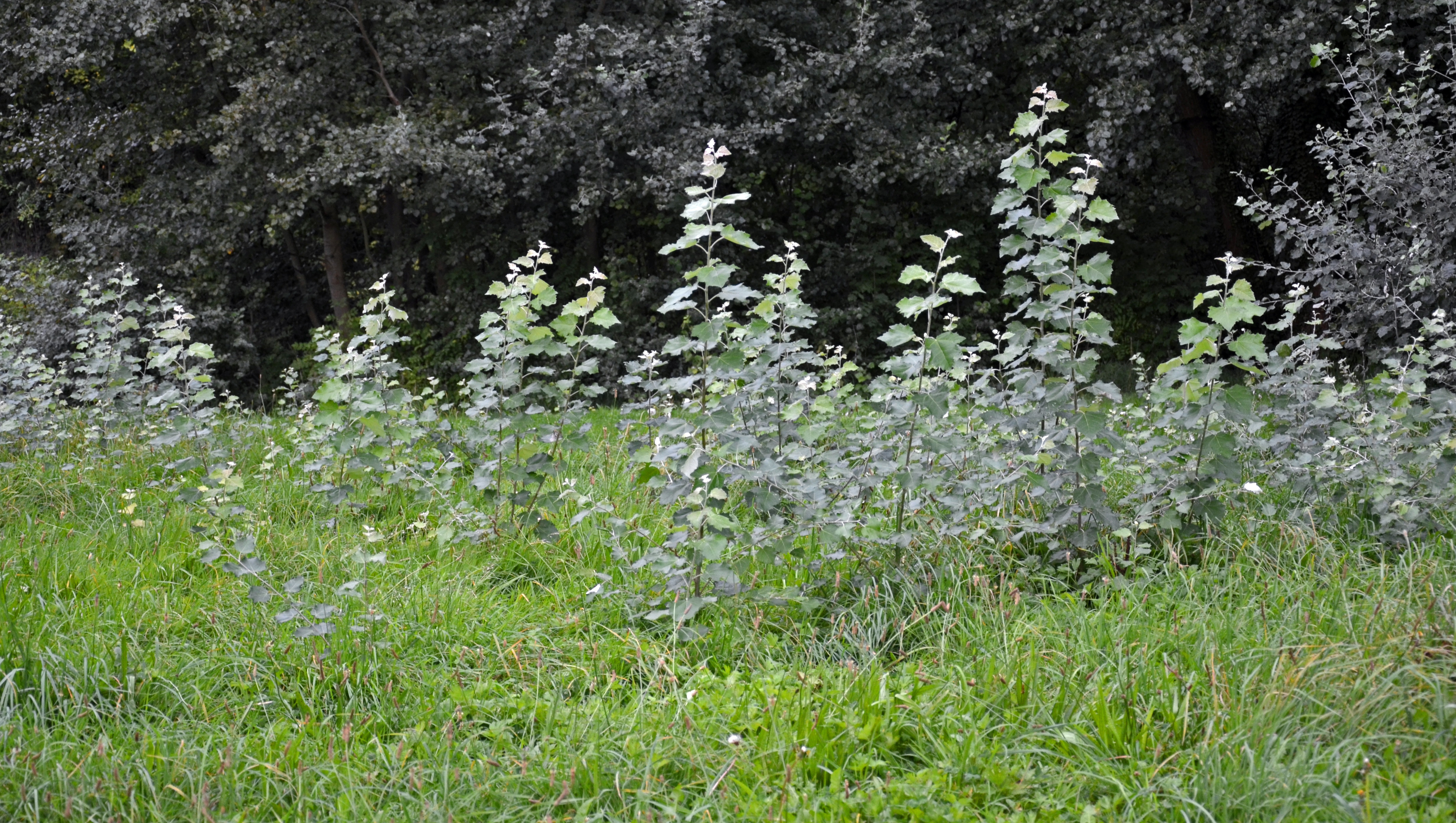 sucker or basal shoots of poplars (in Lille, north of France)